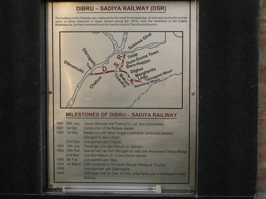 Dibru Sadiya Railway Details Information Board, Tinsukia Railway Heritage Museum